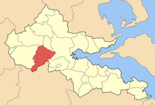 Locator map of Ypati municipality (Δήμος Υπάτης) in Fthiotida prefecture (Νομός Φθιώτιδας) in Greece.